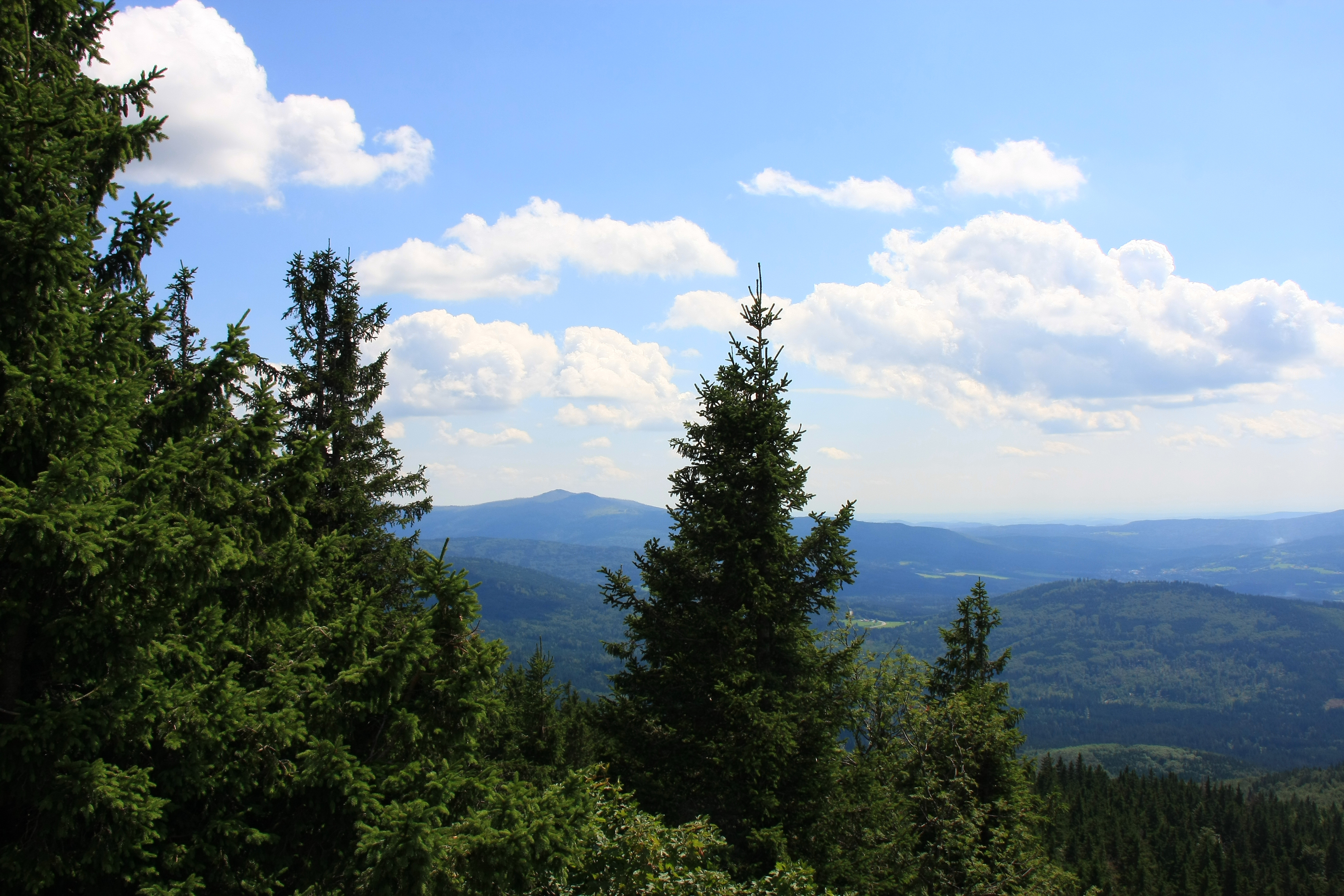 Falkenstein, Bavarian Forest Nationalpark